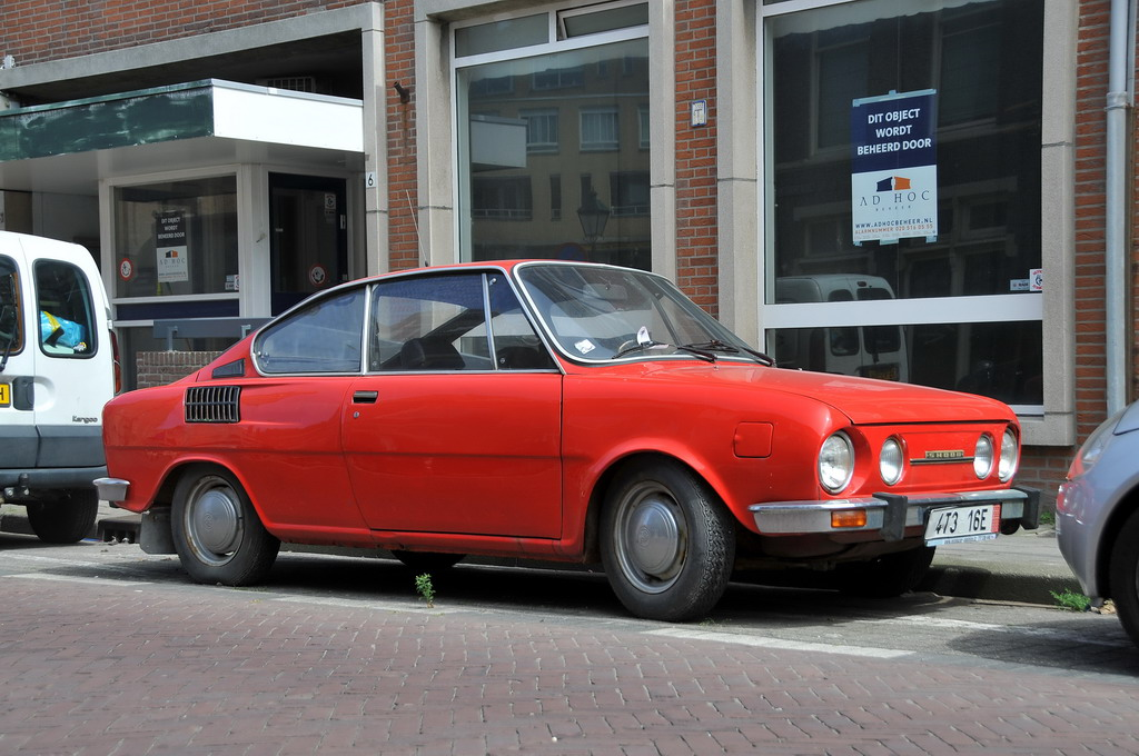 Škoda S100/110